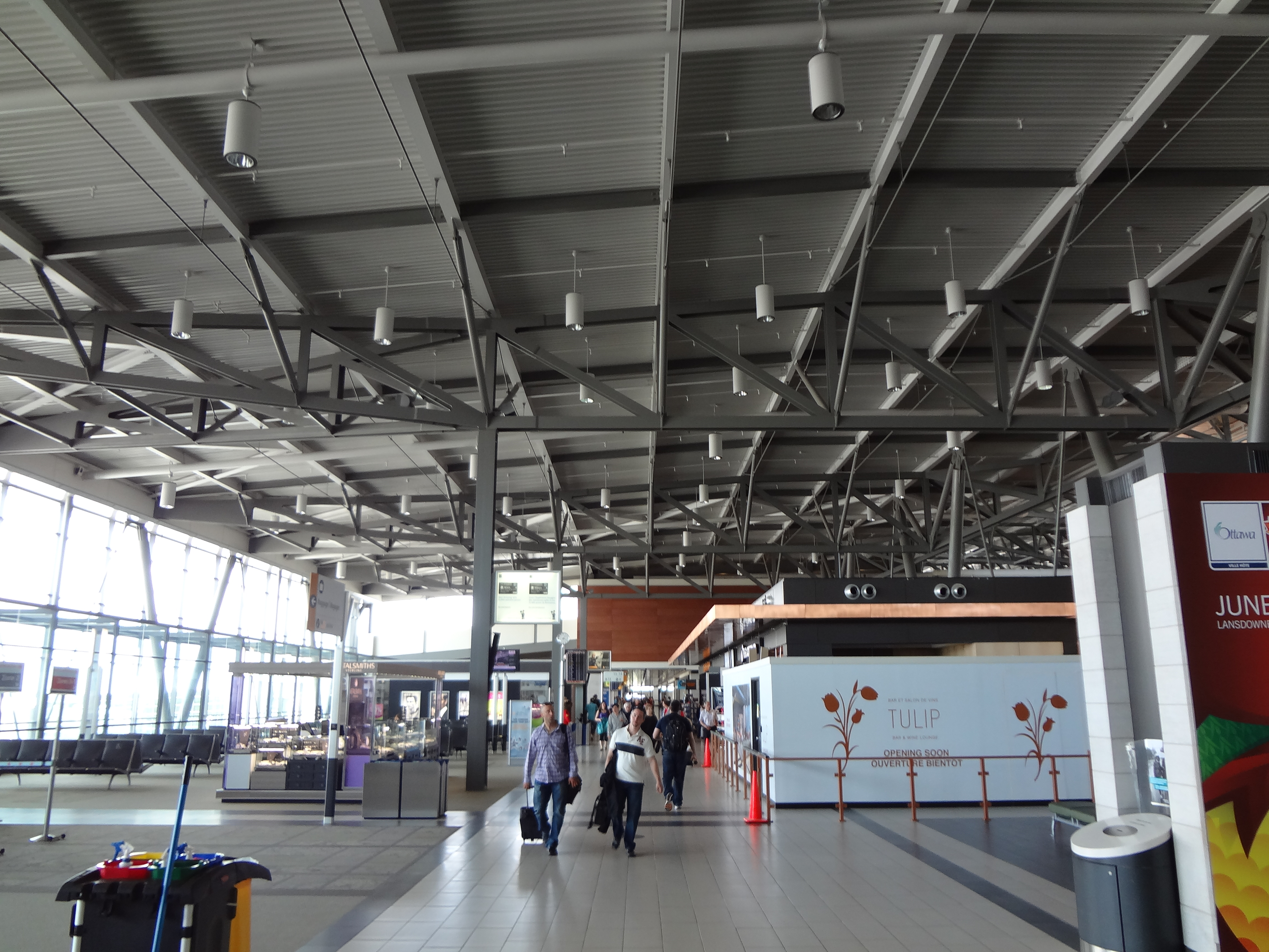 Time now to head towards our boarding gate for St. John's. I have flown through Ottawa airport several times to look up my son who used to study there, and had always been amazed at the tiny size of the airport, considering that Ottawa is the capital city. But hey, as we headed to our gate, the airport is not so small after all! The domestic terminal is fairly large. The international portion may be tiny as barely a handful of international flights call at Ottawa, mostly to North America. (Ottawa, Ontario, Canada, June 2015)